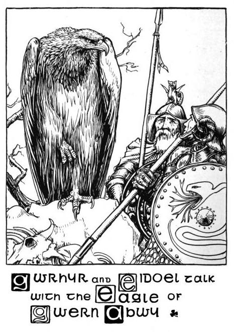 An illustration of the fairy tale The Wooing of Olwen created by John D. Batten for Joseph Jacob's collection Celtic Fairy Tales.